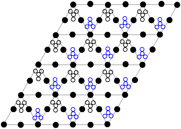 Plan cristallin de / cristal plan of Pb(NO3)2.